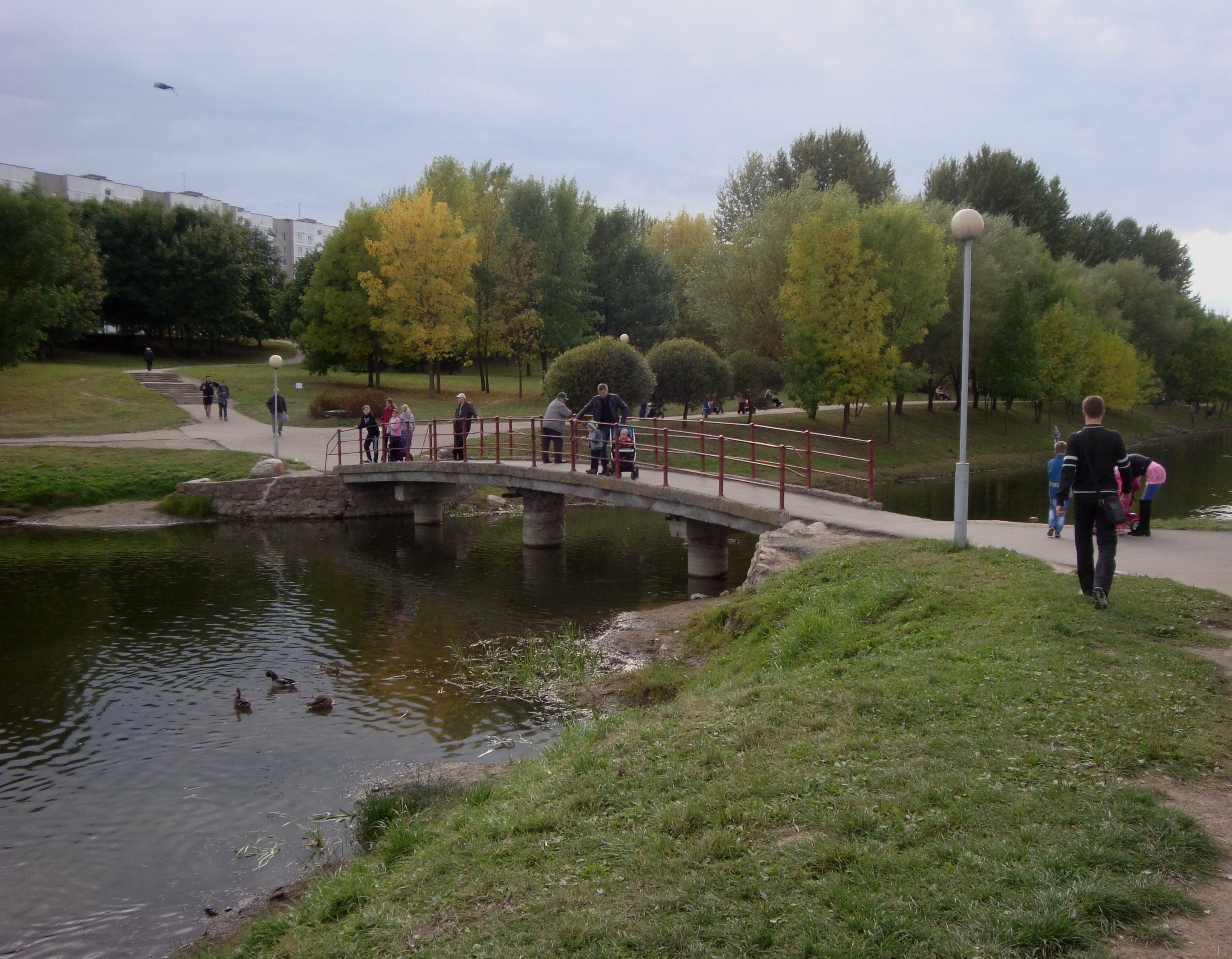 Michail Paulau Park in Minsk city (Belarus), 13 September 2015 AD